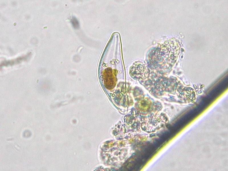 This work is free and may be used by anyone for any purpose. If you wish to use this content, you do not need to request permission as long as you follow any licensing requirements mentioned on this page.